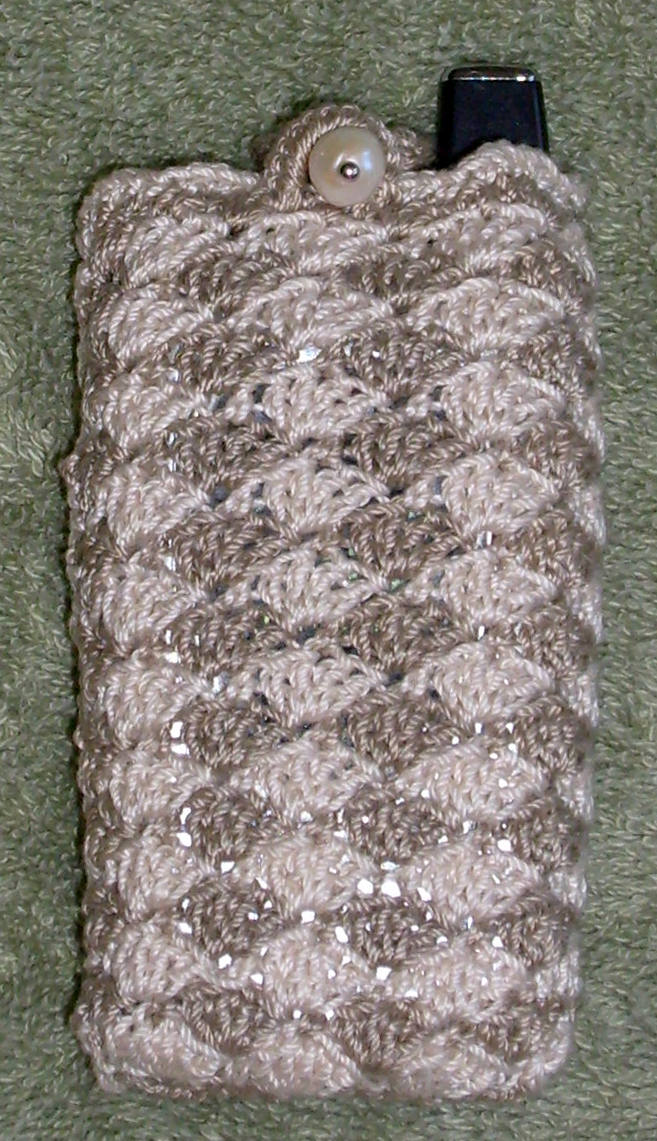 Crocheted cell phone cover. No. 10 crochet thread in ecru and natural colors, shell stitch pattern. freshwater pearl and sterling silver head pin clasp. Original design